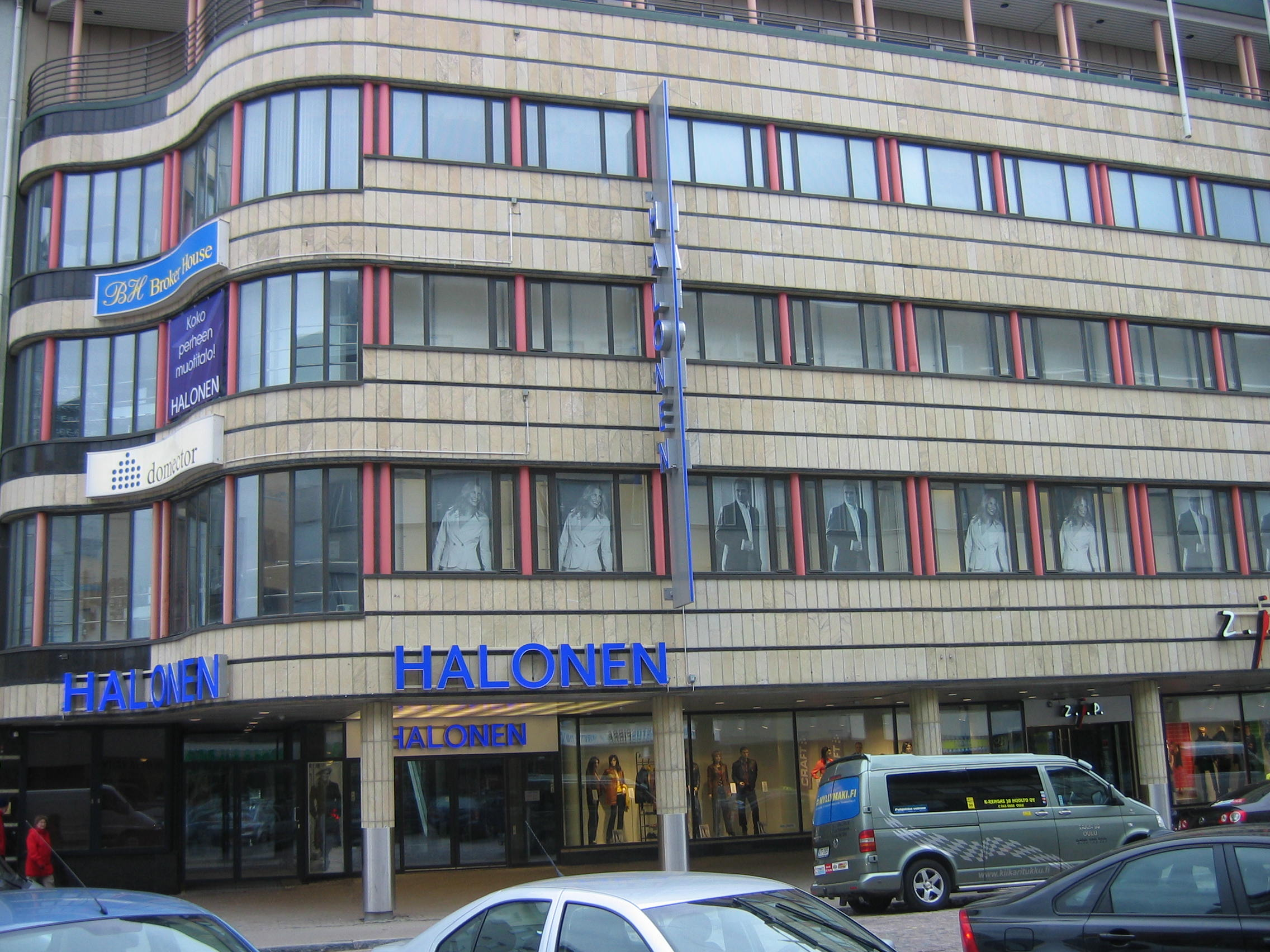 The "Halonen" store in the centre of the city of Oulu, Finland. The building was designed by architect Marja Laatio and completed in 1988.